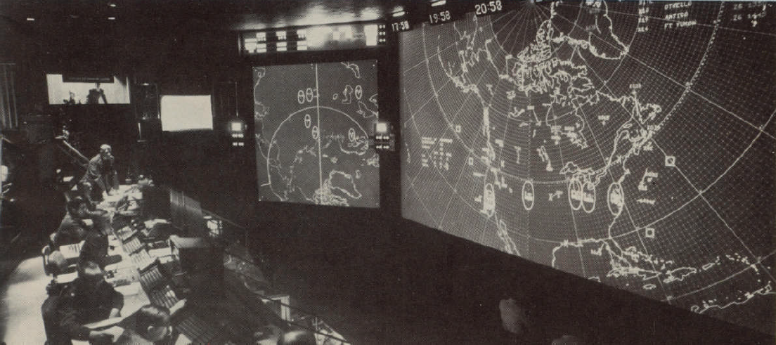 The "war room" of the NORAD/CONAD Combined Operations Center at the Chidlaw Building in Colorado Springs took over operations in 1963 from the nearby Ent Air Force Base command center. Eventually designated the "Combat Operations Center", the air defense command center operations were superceded by Cheyenne Mountain's full operational capability on July 1, 1966 (NORAD and other headquarters remained at the Chidlaw Building). The war room was similar to the blue rooms in the SAGE Direction Centers (DCs) that provided the Semi-Automatic Ground Environment to operators and commanders and for which groundbreaking was in 1957 ("full 22 site deployments in 1961"--the last completed "SAGE direction center became operational at Sioux City, Iowa, in December 1961)." The Chidlaw computer system was the initial deployment of the Burroughs 425L Command/Control and Missile Warning System, "a fourth automated program…into existence by this time.[fall of 1962]…to correct 416L's inability to provide an automated facility for the top eehelon of the air defenses in Colorado Springs.[1] The 1963 Chidlaw system's 425L digital computers allowed on June 3, 1963, the vacuum tube AN/FSQ-7 systems at Marysville CA, Marquette/K I Sawyer AFB (DC-14) MI, Stewart AFB NY (DC-02), and Moses Lake WA (DC-15) to be planned for closing and to be replaced with Back-Up Interceptor Control (only 6 DCs remained in 1969.)